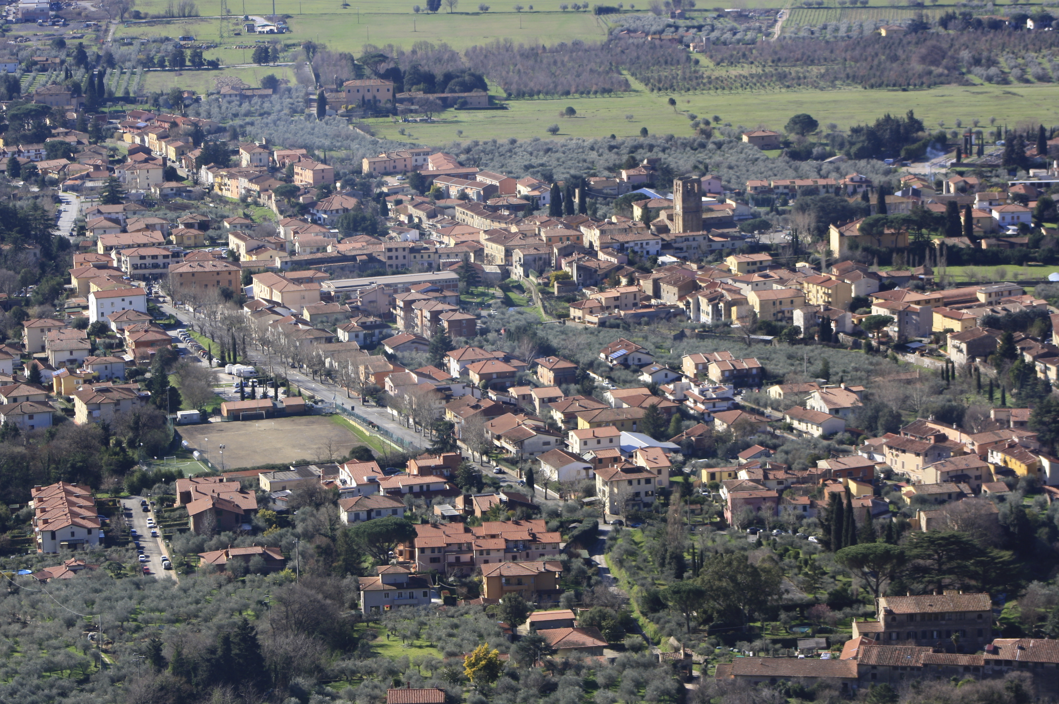 Panorama of Calci, Province of Pisa, Tuscany, Italy